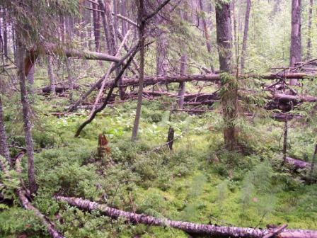 the bog of Staroselsky mokh